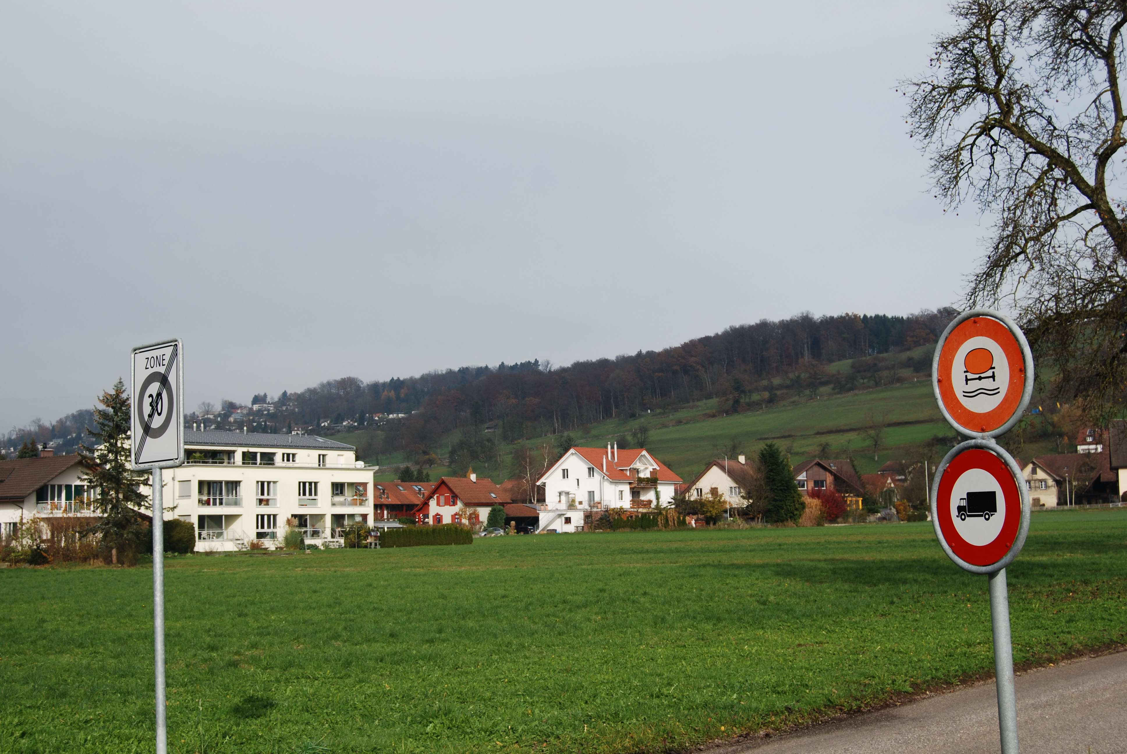 Zufikon, canton of Aargau, SwitzerlandEsperanto: Zufikon, Kantono Argovio, Svislando